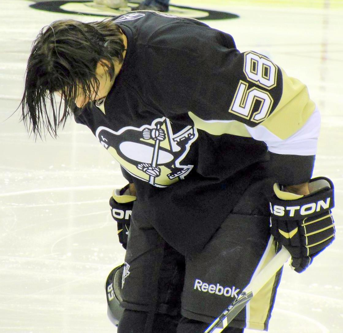 Kris Letang, Pittsburgh Penguins, March 2011.